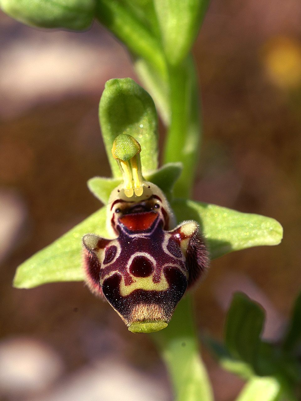 Ophrys scolopax